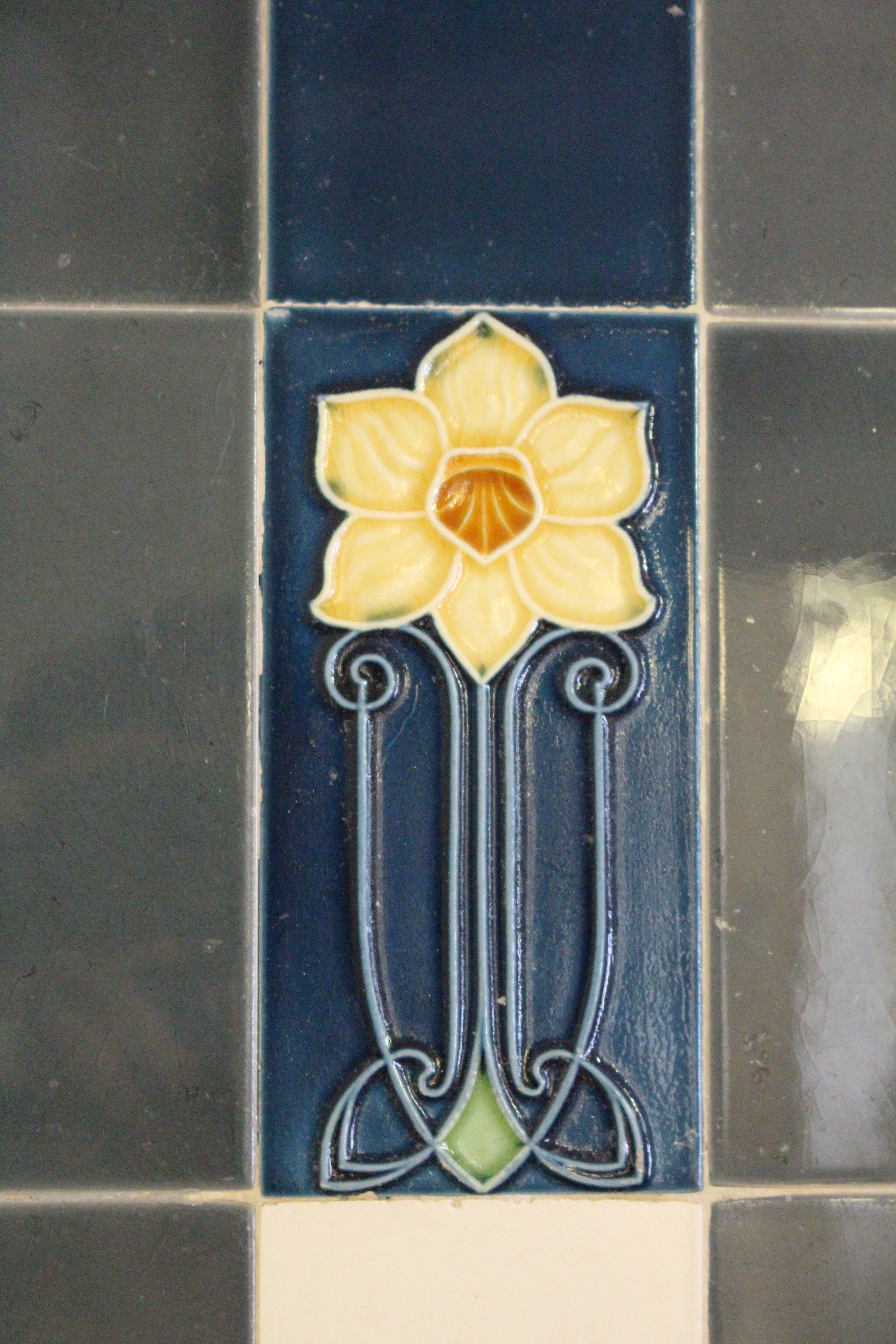 Stadhuis ( City Hall ) Inside Detail(2), Original Tiles Oranjestad, ARUBA